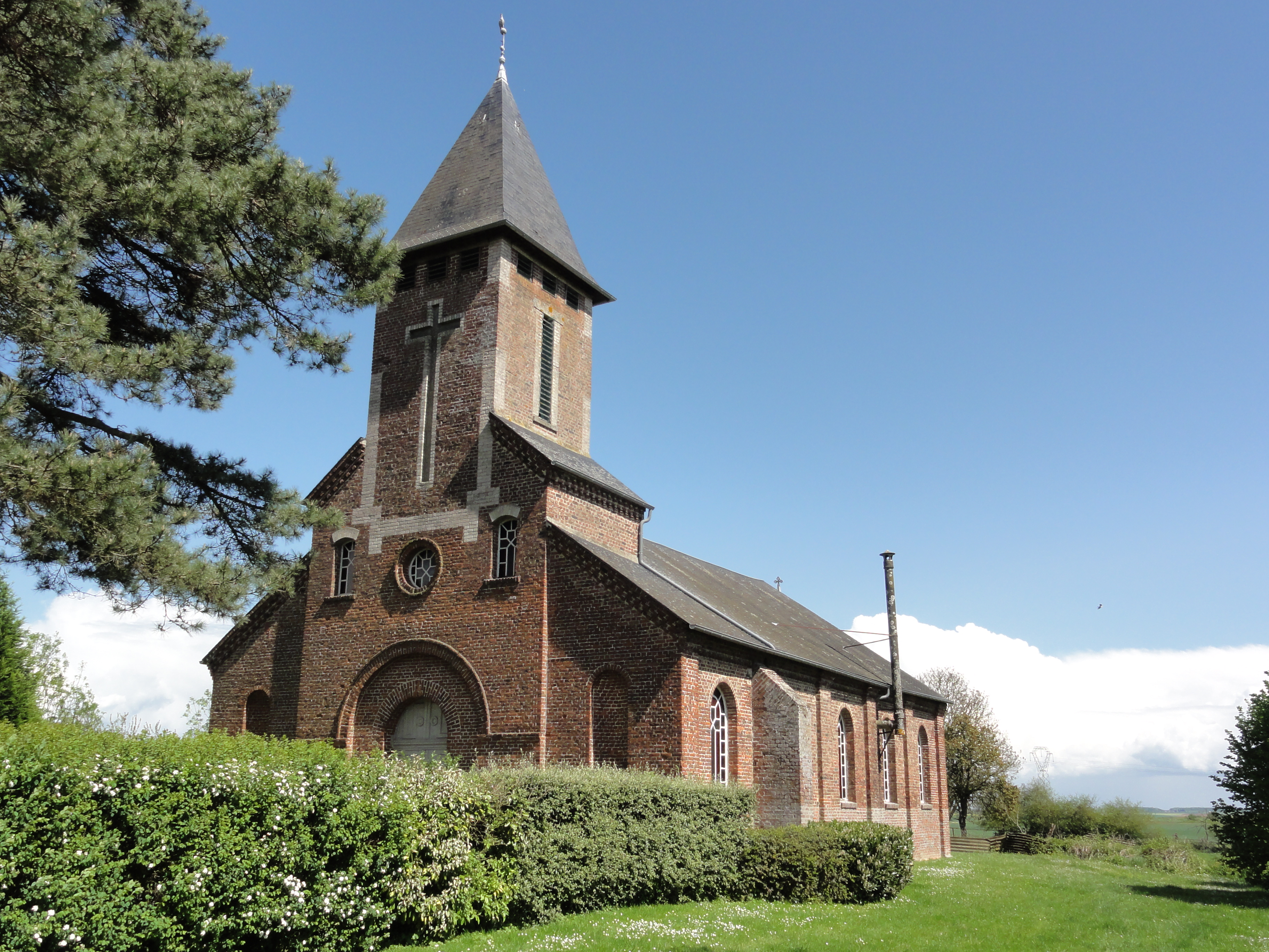 Surfontaine (Aisne) église